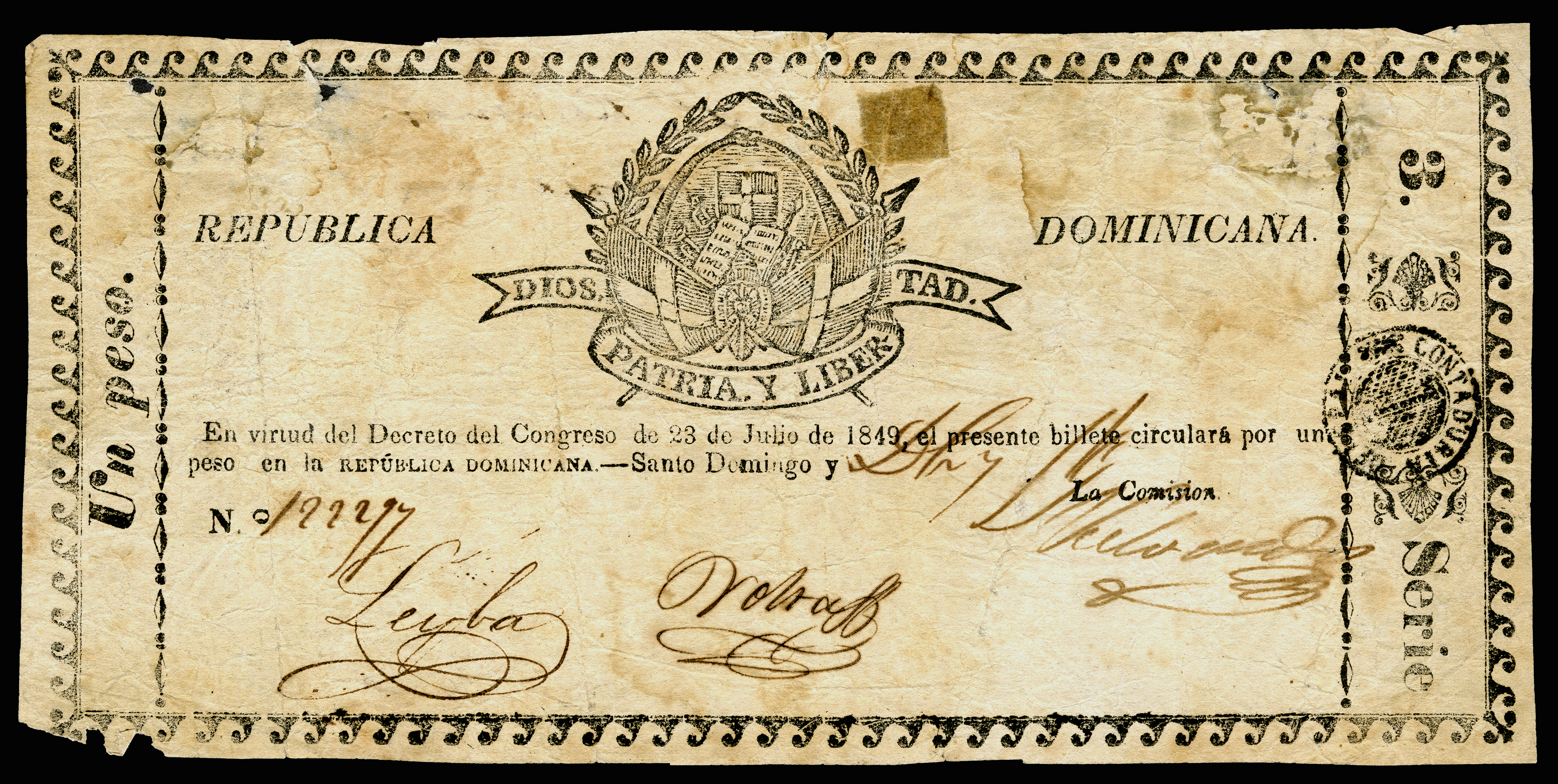 Dominican Republic, 1 peso (1849). First year of regular issue bank notes.